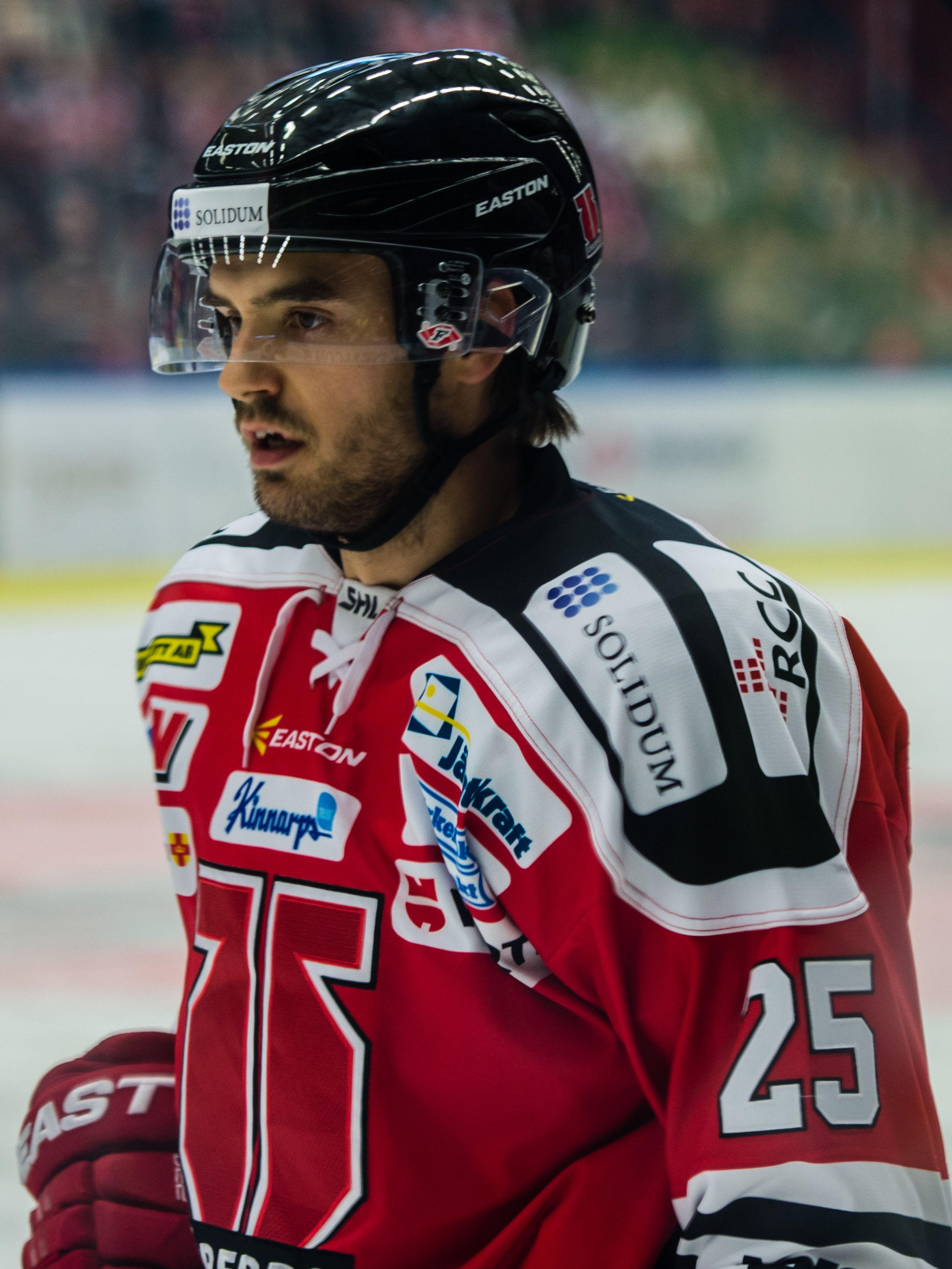 Martin Johansson playing for Örebro HK in SHL (Sweden's highest league) against MODO Hockey in Behrn Arena 2013-10-05.